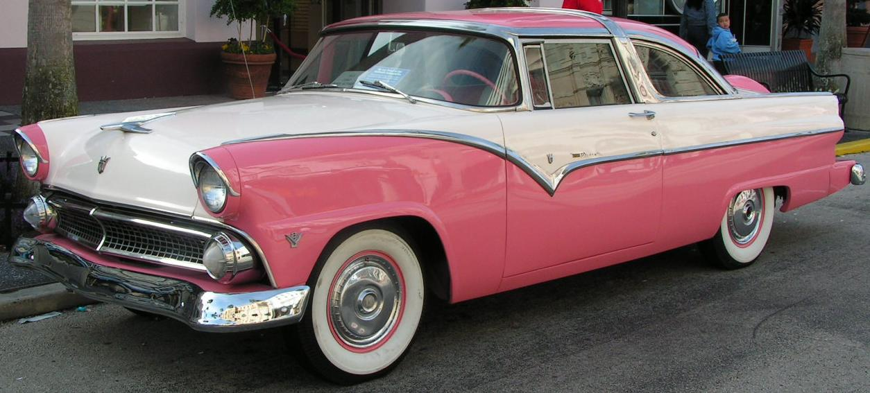 1955 Ford Crown Victoria photographed @ Universal Studios Orlando.